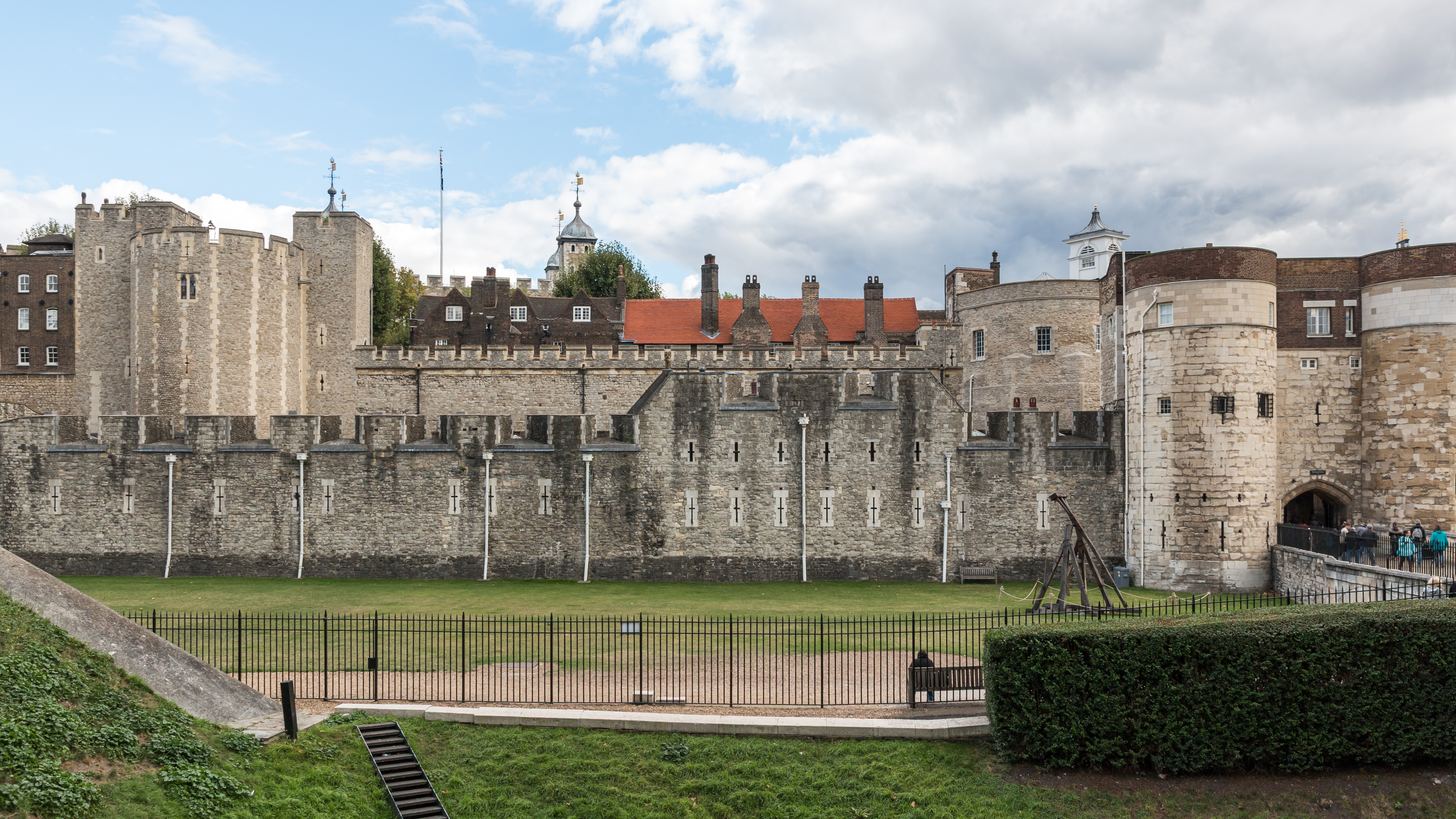 Tower of London, London, England, United Kingdom